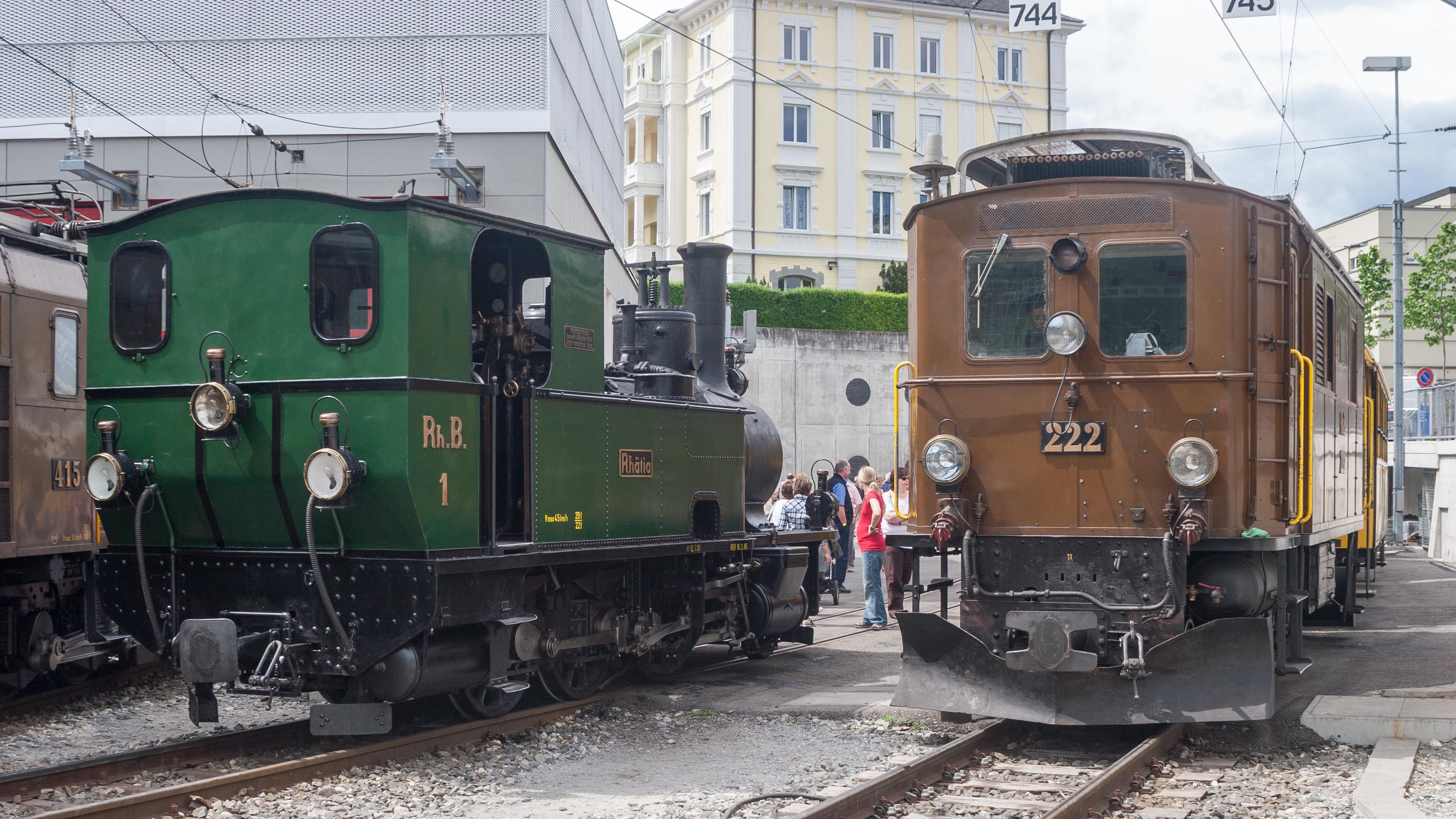 RhB G 3/4 Nr. 1 "Rhätia" and Ge 2/4 Nr. 222 in Chur